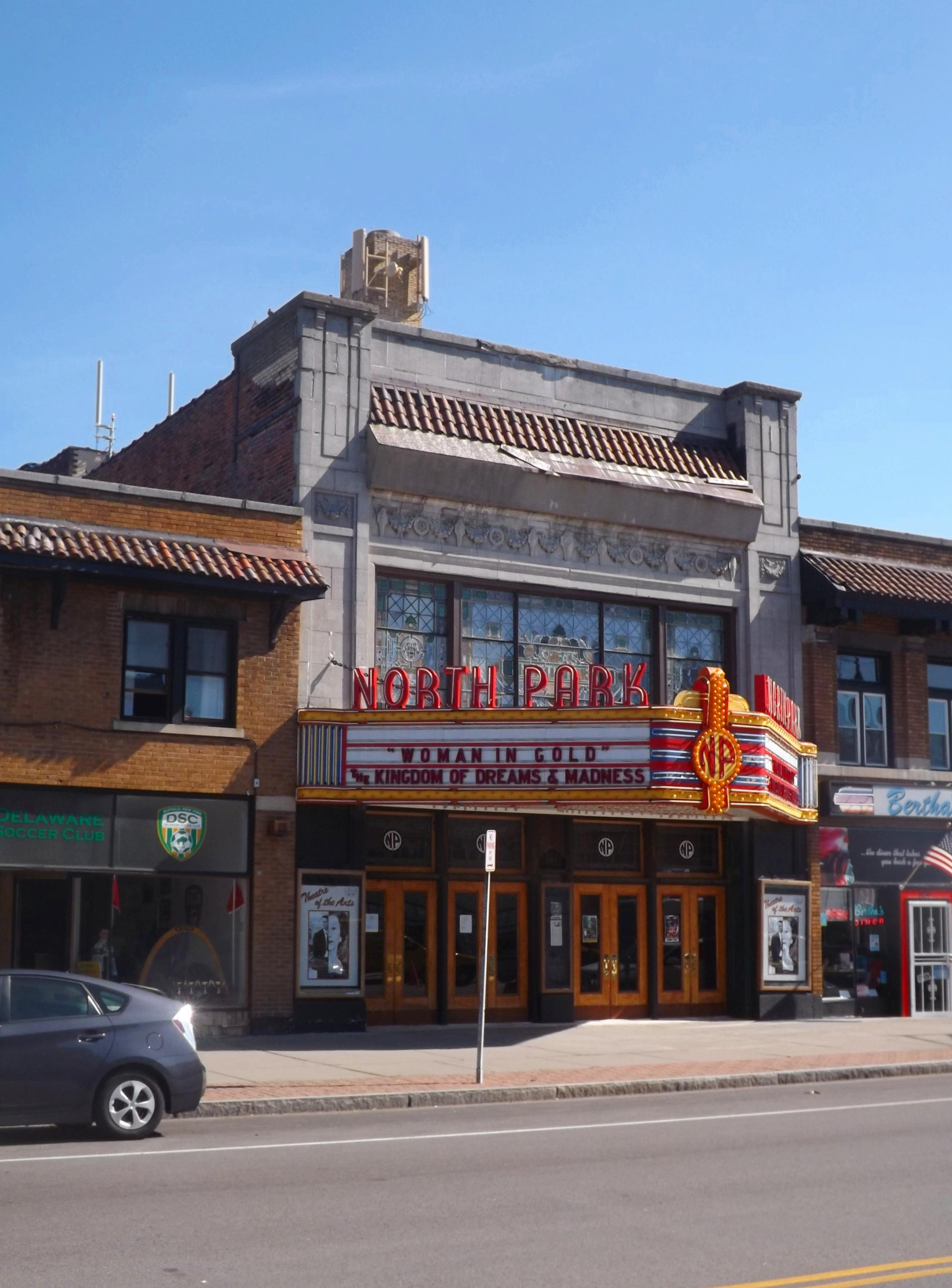 The North Park Theatre is a longstanding mainstay of Hertel Avenue. Built in 1920 as part of the Shea chain of movie houses, the theatre boasts an exquisite Beaux-Arts design that is more monumental in scale than it appears from the street, and an interior whose proscenium, light fixtures and other decorative elements add an Art Deco influence. Since 1968, the North Park Theatre has been part of the Dipson chain of cinemas. Here the film Woman in Gold (film) (2015) is being shown. Updated version, May 2015, showing restored stained-glass window above marquee.